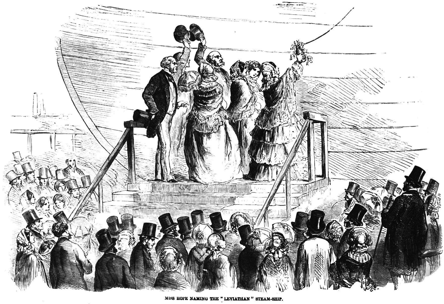 "Miss Hope naming the Leviathan steam-ship".